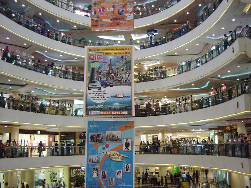 The middle of Surabaya's (Indonesia) biggest shoppingmall, Tunjungan Plaza.